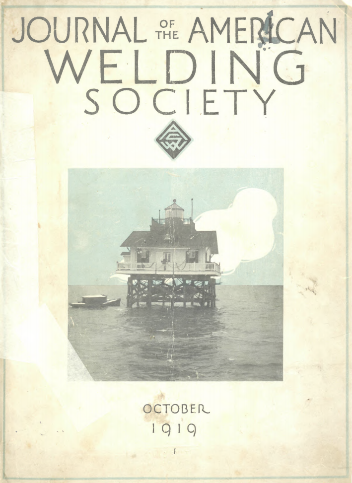 The first and only issue of the Journal of the American Welding Society. This would go on to become the Welding Journal in 1922.